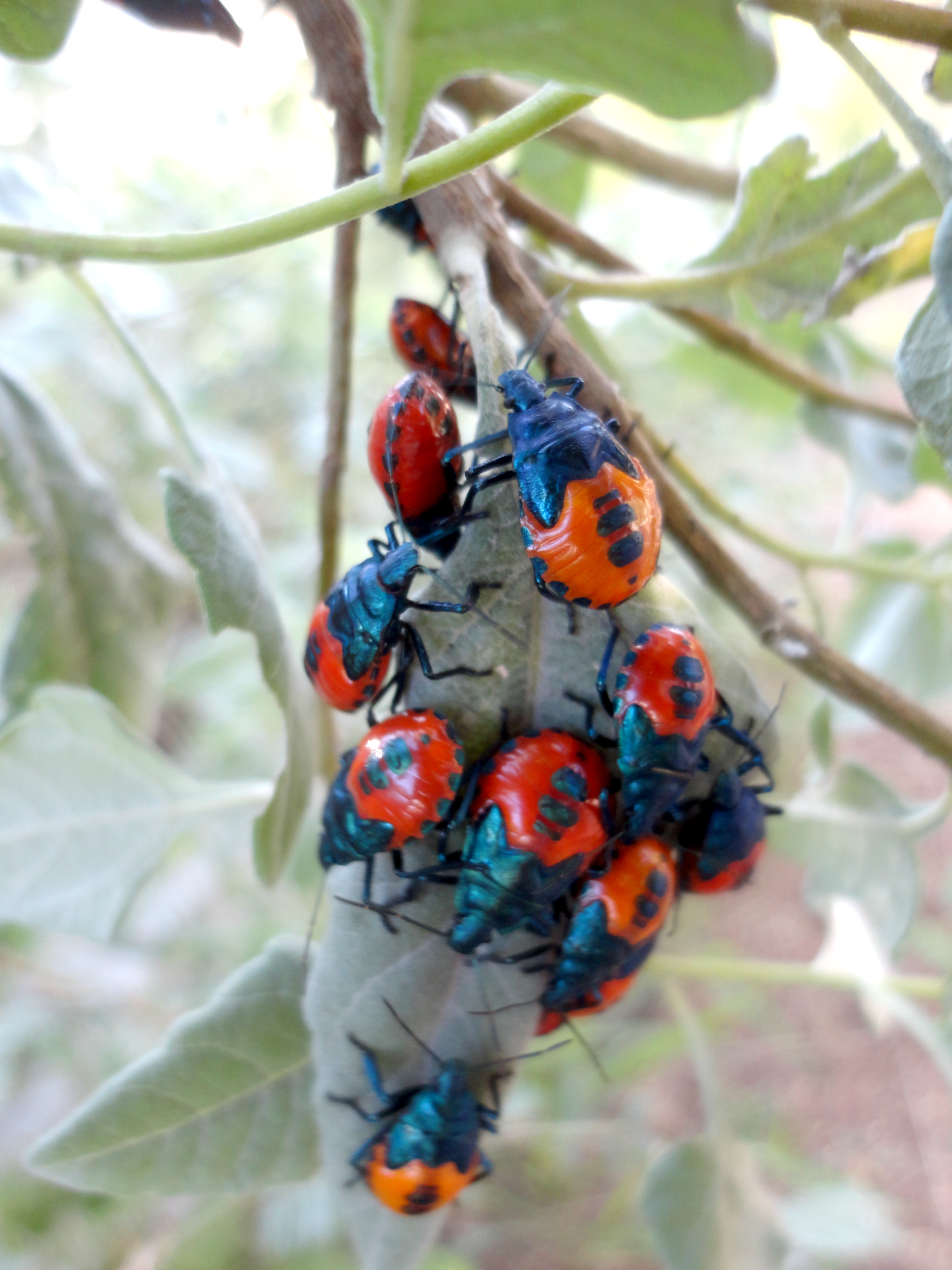 Nymphs of Euthyrhynchus floridanus seen in Dolores Hidalgo, Mexico. Kingdom: Animalia Phylum: Arthropoda Class: Insecta Order: Hemiptera Superfamily: Pentatomoidea Family: Pentatomidae Genus: Euthyrhynchus Species: Euthyrhynchus floridanus